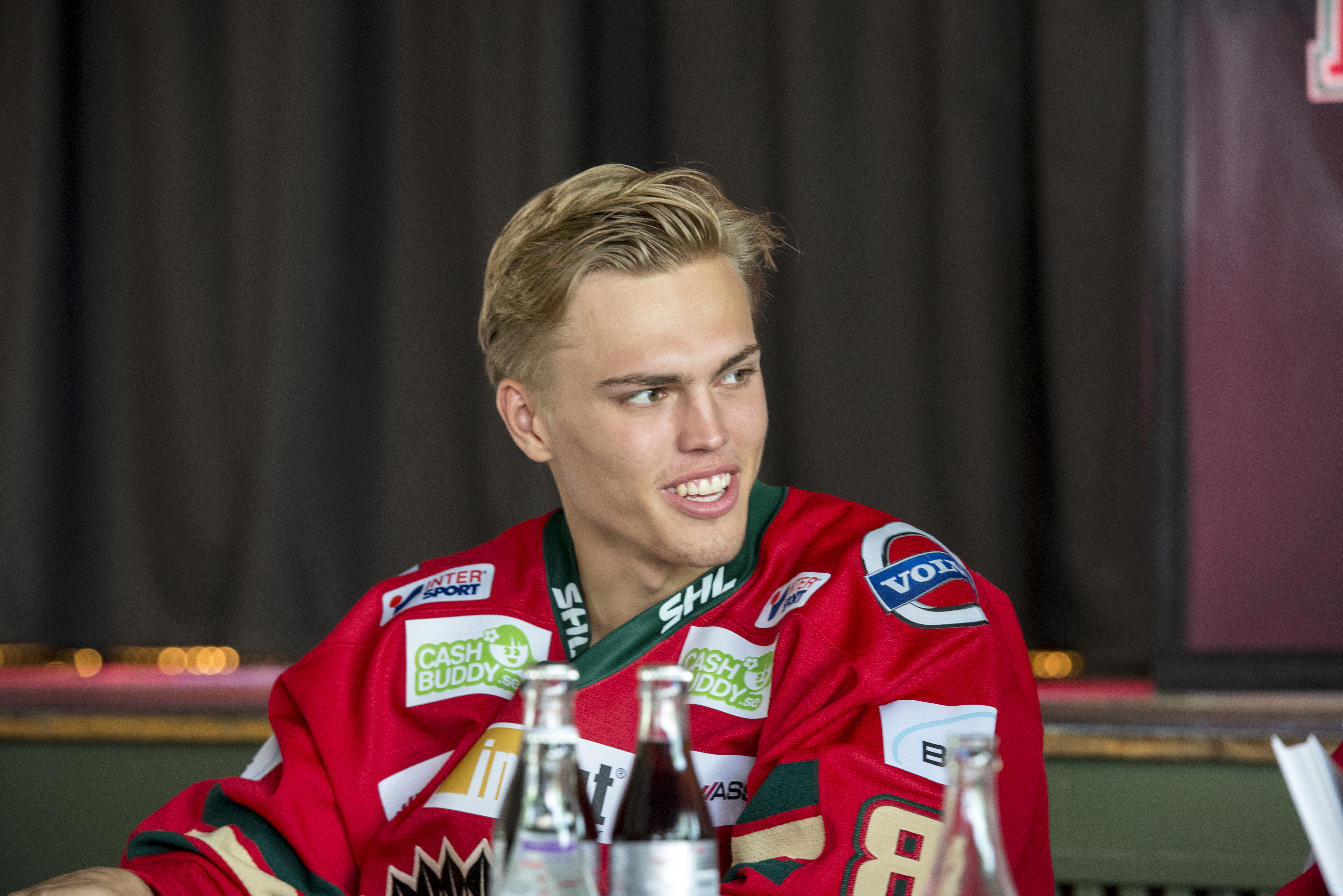 Ice hockey player Andreas Johnson at "Frölundas dag" at Liseberg, Göteborg 2013.